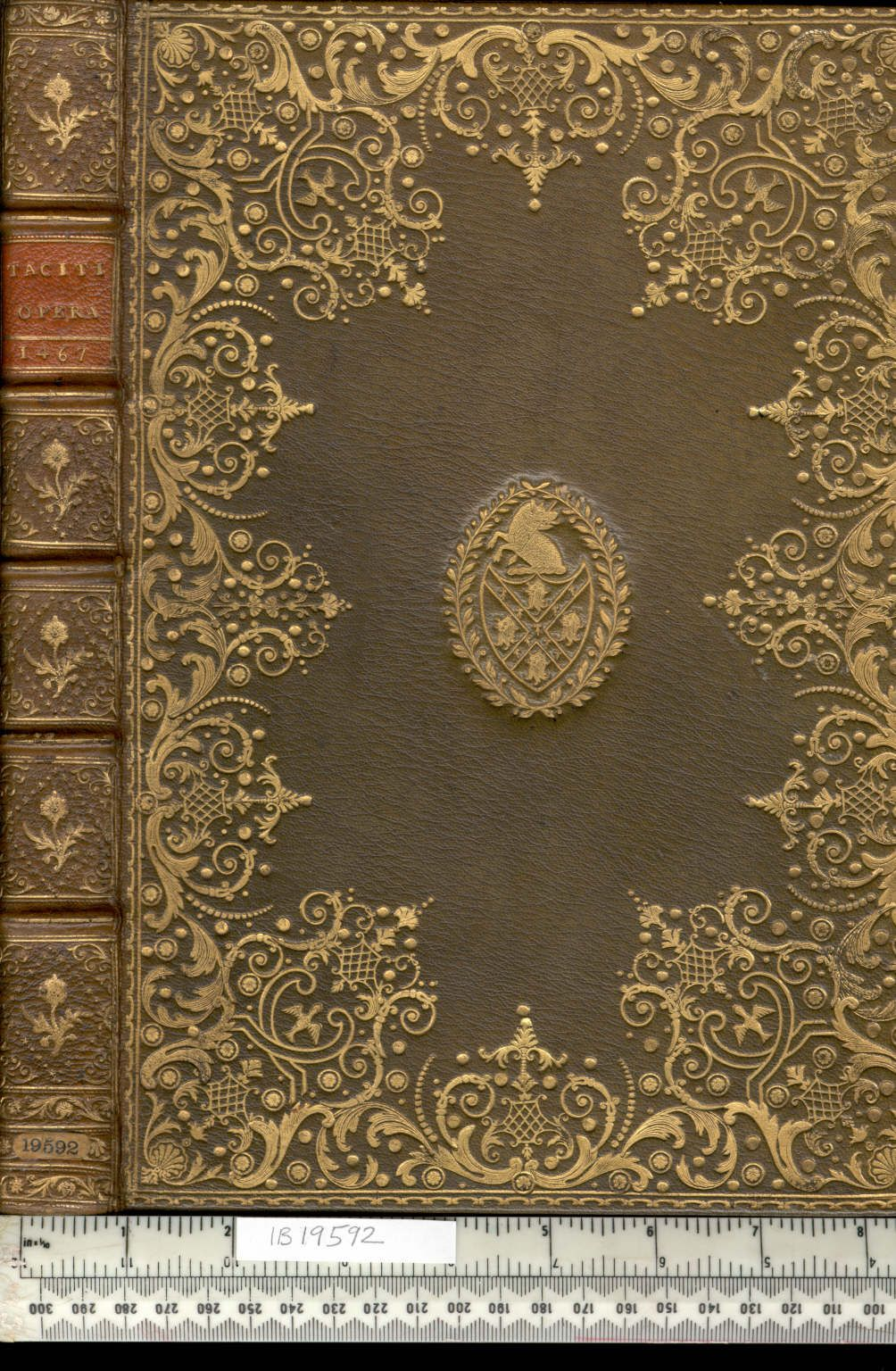 Style: Armorial|Dentelle|Floral|Bird motif; Caption: Upper cover; Colour: Green; Edge: Gilt